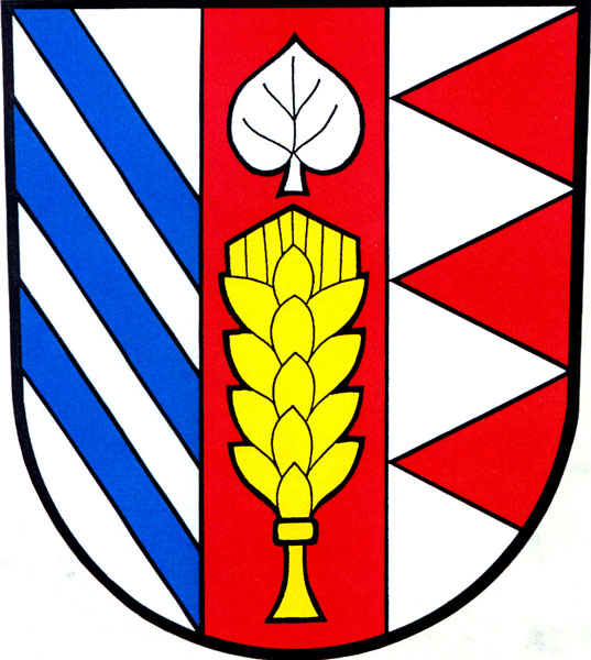 Coat of amrs of Stratov , District Nymburk, Czech republic